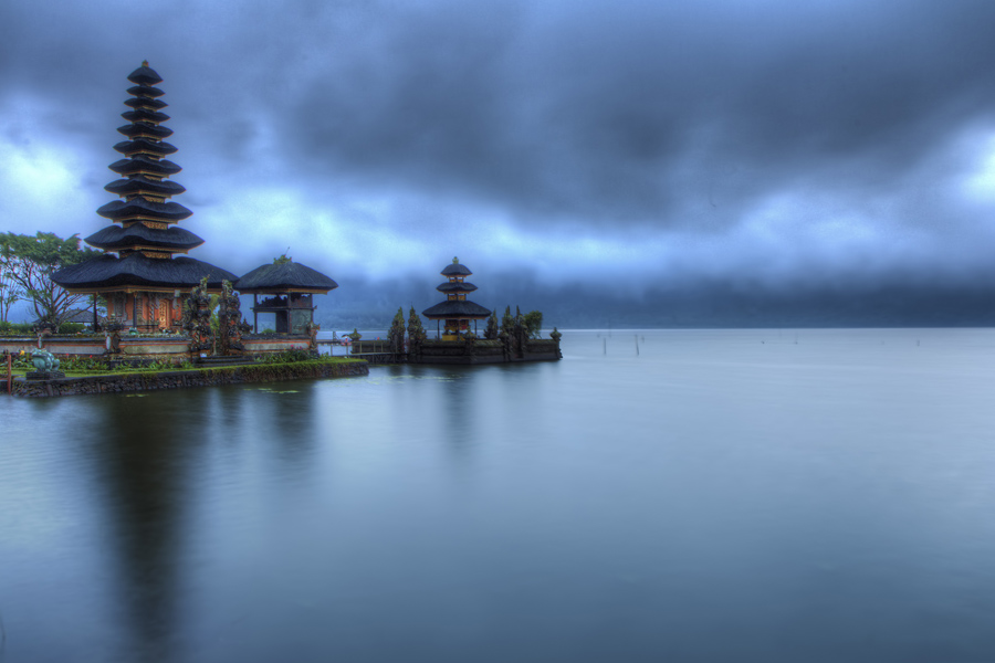 Daily HDR Blog | HDR One Magazine | Facebook | Twitter | Pinterest | Google+ Travel Diary Day 29 (Travel Blog - I found a small, old abandoned ferry on the beach today. While taking pictures of it, two young girls of about 8 years of age came and asked me for $1 in Indonesian. They were dressed better than I was. I knew they weren’t homeless. I told them no. They asked for 2,00 rupiah. I said no and that I didn’t have any money. One girl called me a liar. This is the exact same behaviour you’ll find in many of the adults on Bali too sadly. On a positive note, we’re going to Sanur tomorrow and then hopefully heading to the small island of Nusa Lembongan. There’s also a chance that we’ve got another house sitting opportunity in France babysitting Dave the cat. Today's Photo - Ulun temple can be found on 50,000 rupiah notes (Indonesian currency, in case you didn’t know). It’s a Hindu place of worship that sits out on lake Beratan in Bali. On this particular morning the fog was thick, the rain was light, and we hadn’t seen any colour in the sky for 2 days. It was 5:00am and we were due to leave the town of Bedugul in only a few hours. This was my only chance to get a photo. At some point, and only for about 20 minutes, the fog cleared slightly and the rain stopped, and against my expectations we were presented with a lovely blue scene. The HDR magazine is now available at